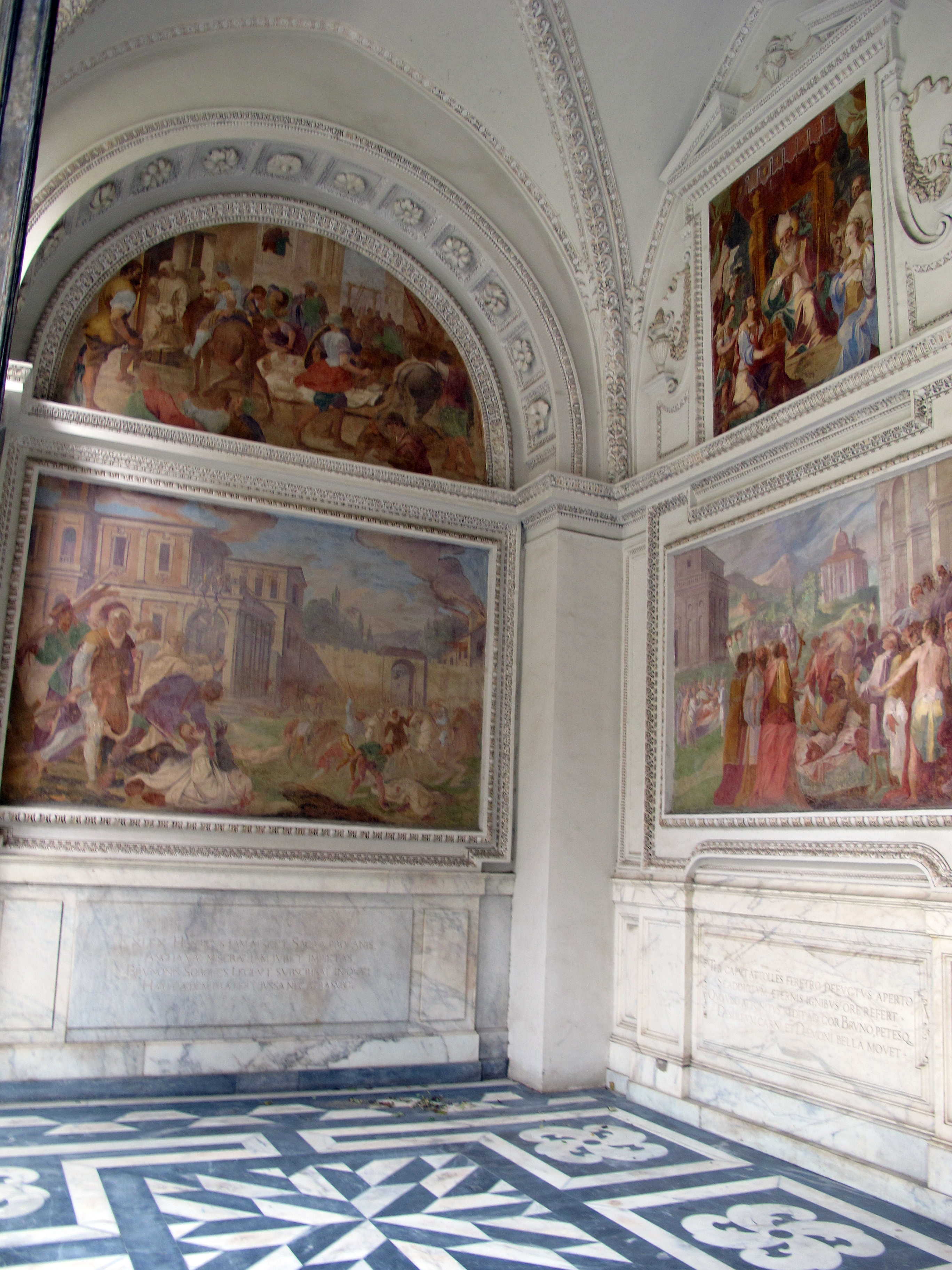 Certosa di San Martino (Naples) - Church